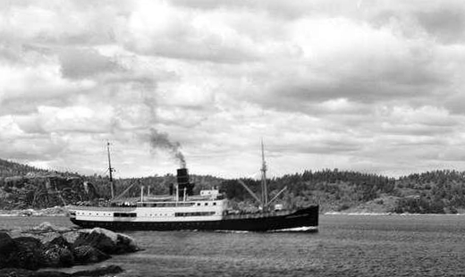 Norwegian passenger ship DS Kronprinsesse Märtha. This ship was built in 1929 as a steamship, but was in 1948 converted into a motorship. She was also employed as a relief ship in the coastal express service (Hurtigruten) between 1952 and 1962.